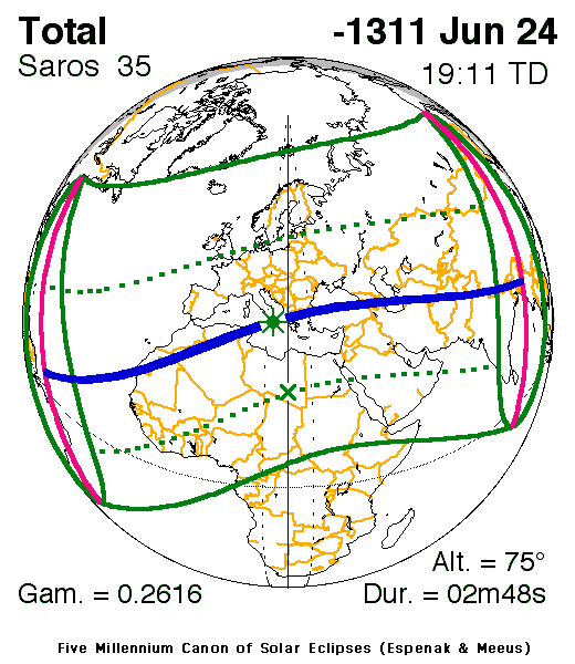 Solar eclipse map of path on earth. Solar eclipse of June 24, 1312 BC